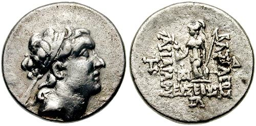 KINGS of CAPPADOCIA. Ariarathes IV. 220-163 BC. AR Drachm (17mm, 4.13 gm). Dated year 33=187/186 BC. Diademed head right / Athena standing left, holding Nike and supporting shield and spear; T outer left, monogram inner left, D outer right, date in exergue. Simonetta 16a. VF, nicely centered. From the Charles E. Weber Collection.